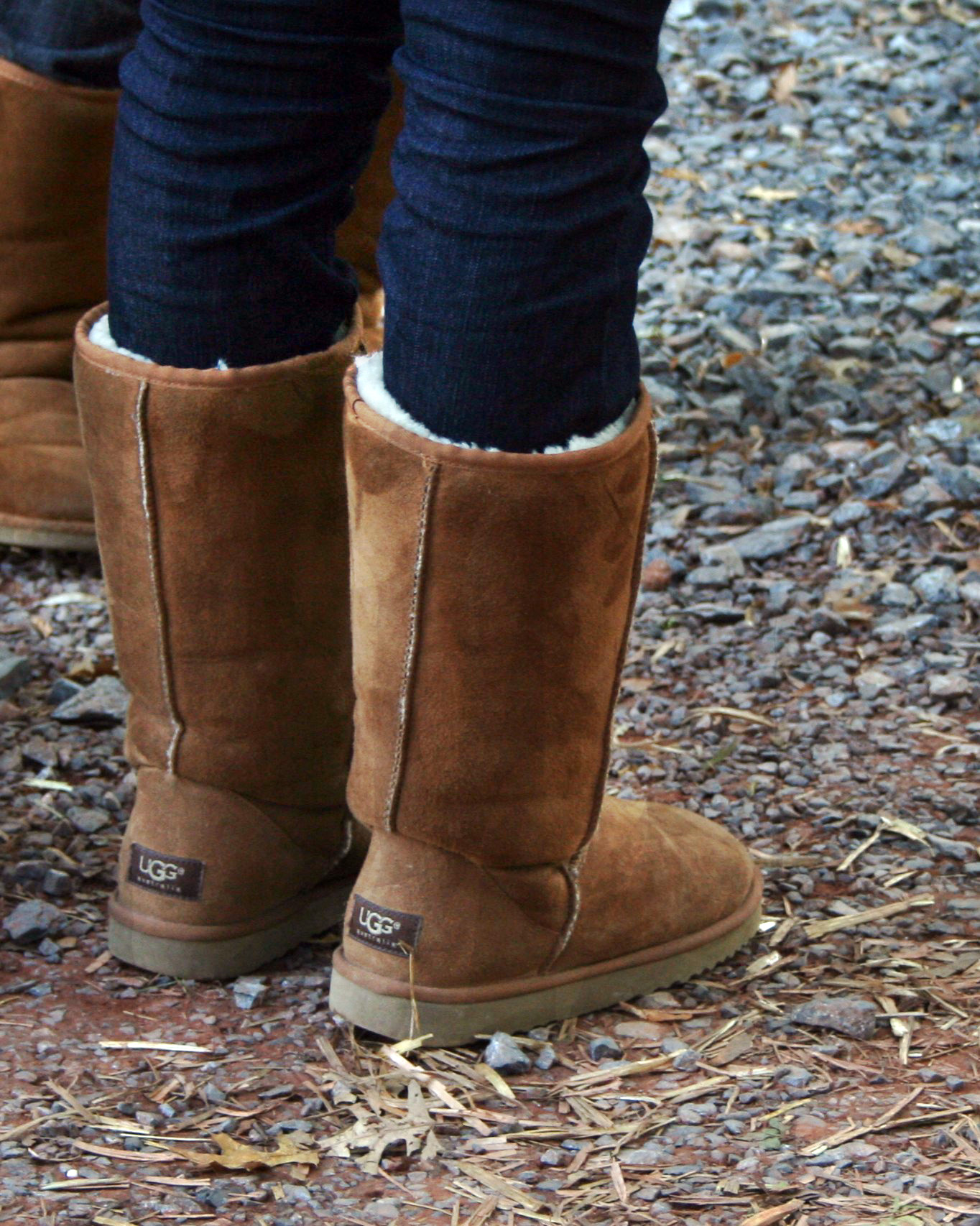 Pair of chestnut Ugg boots with jeans tucked into them